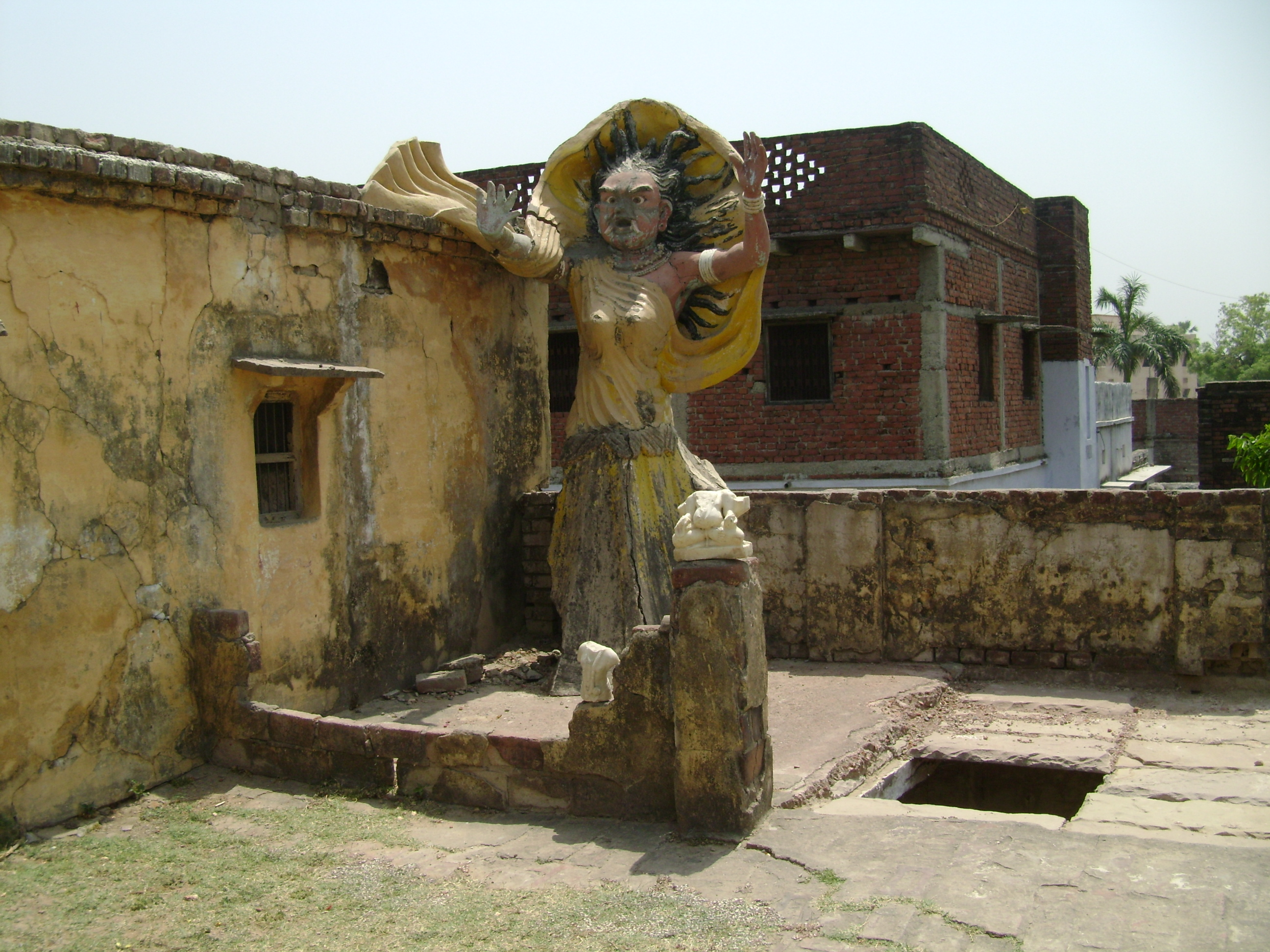 Statue of Tadka ( Rakshasi ) at Buxar